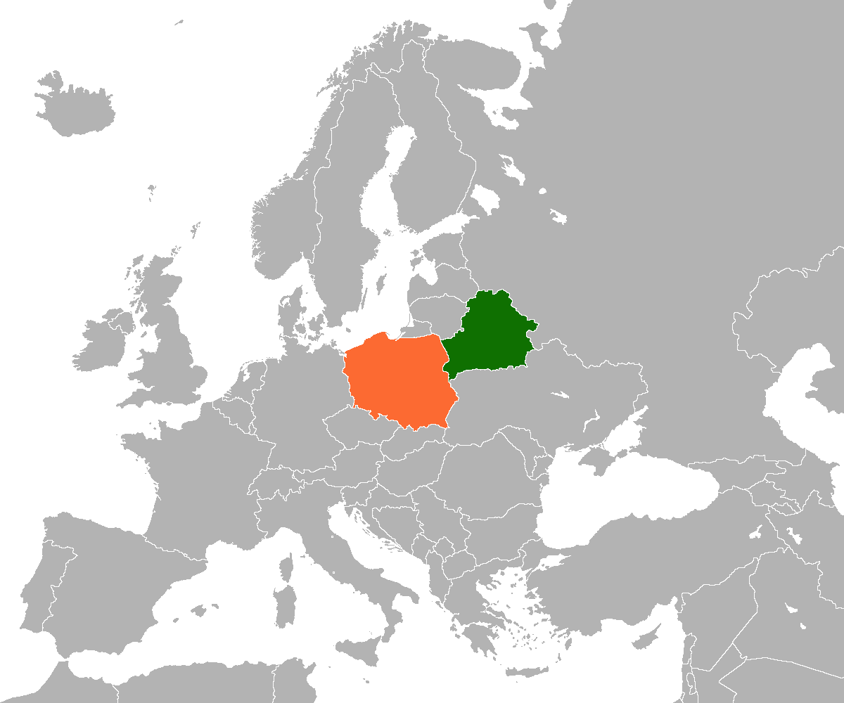 A world map showing the locations of Belarus and Poland.